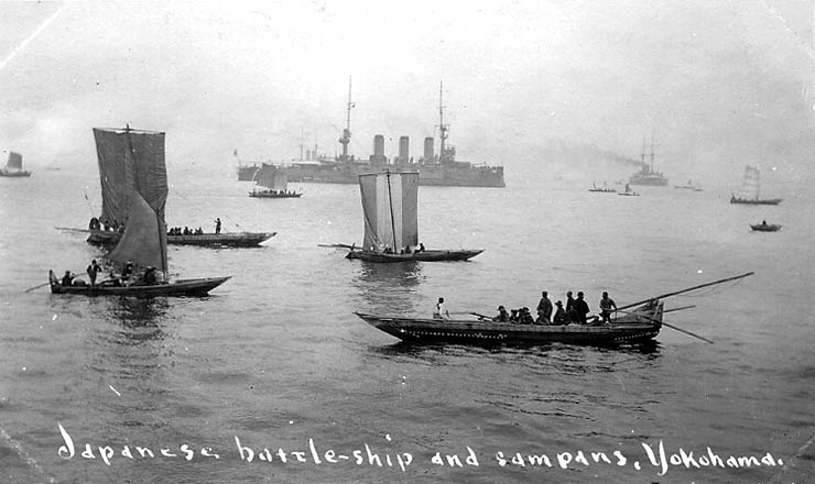 Yokohama, Japan Sampans in Yokohama harbor, during the "Great White Fleet"'s visit there, circa 18-25 October 1908. The Japanese battleship Sagami (ex-Russian Peresviet of 1898) is in the center background. Collection of Chief Quartermaster John Harold.